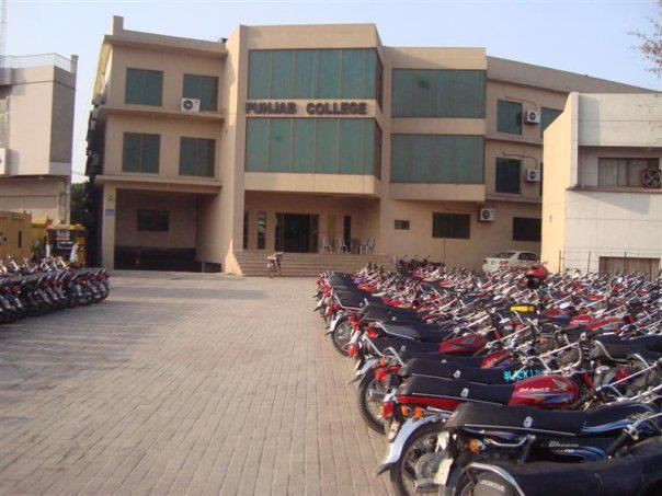 This is "Punjab College" which is situated in Gujrat, Pakistan.